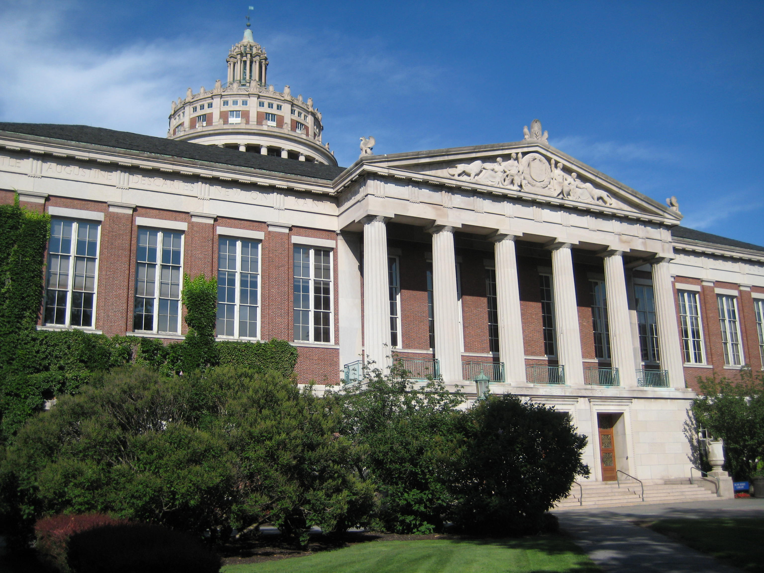 University of Rochester- The iconic front of Rush Rhees Library.